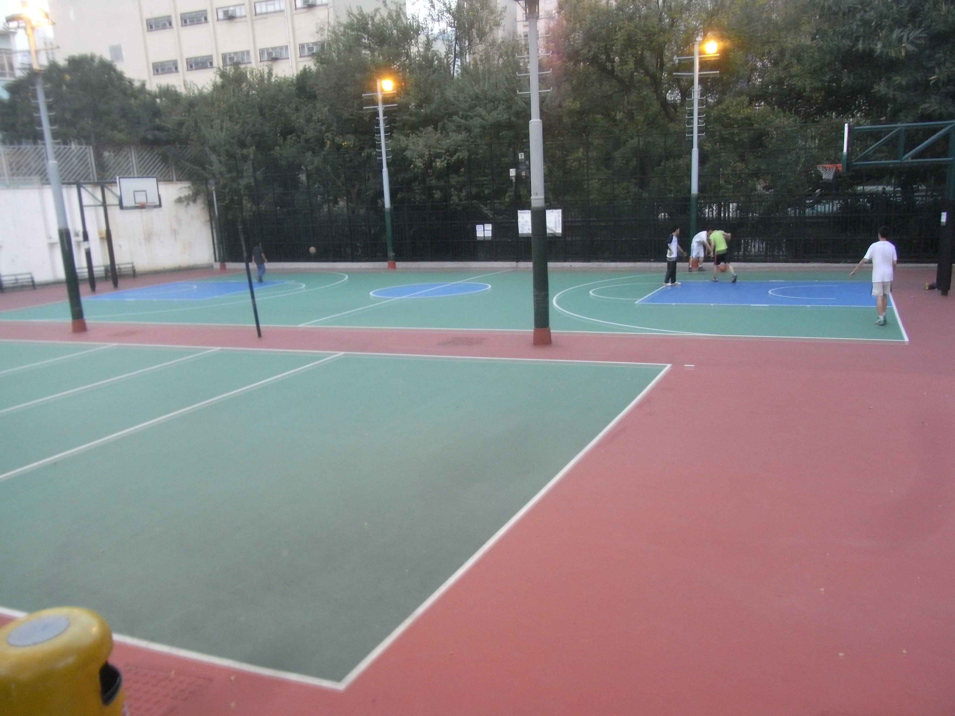 紅磡 青州街青州街 黃昏